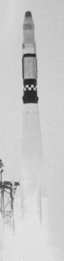 Launch of rocket Thor SLV-2A Agena D with satellite Corona 86 (type of KH-4A).